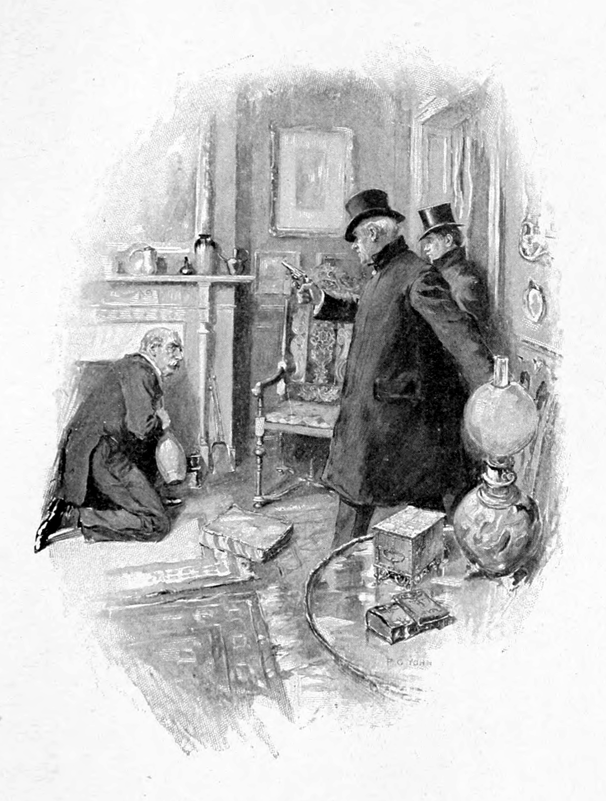 Illustrations from the book Raffles (Charles Scribner's sons, 1906), written by E. W. Hornung and illustrated by F. C. Yohn